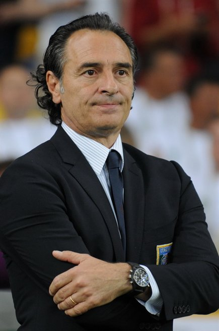 Cesare Prandelli at Euro 2012 match against England